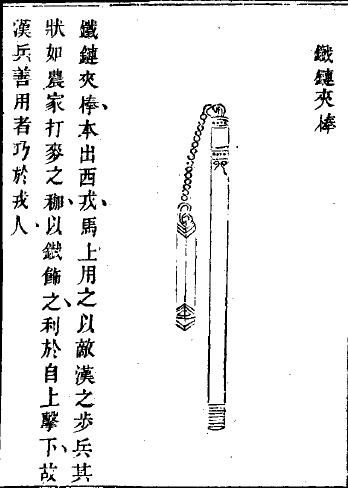 Chinese flail